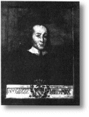 this image was taken of the old Austrian lexicon book, aprox 1800. the image is public domain